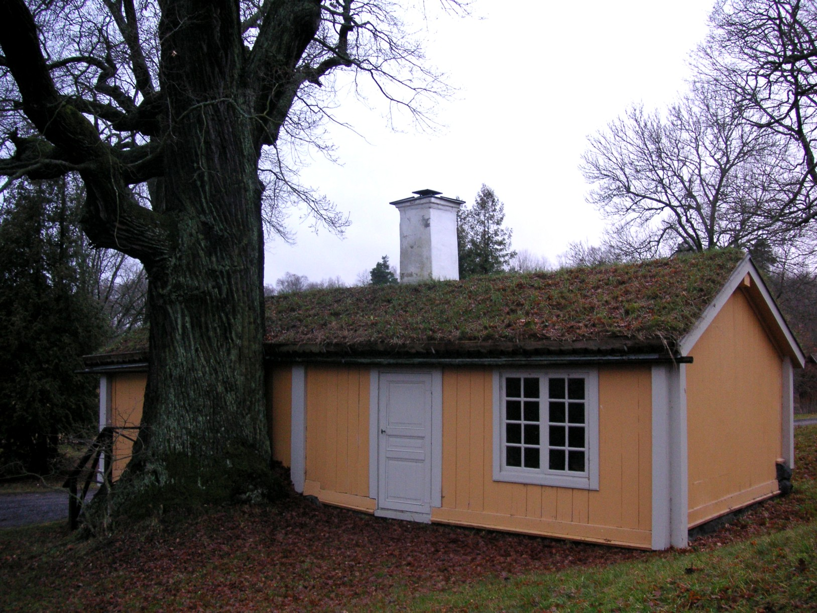 Karl XI´s (Charles XI of Sweden) fishing cottage on Norra Djurgården from 1680, Ekoparkens oldest building